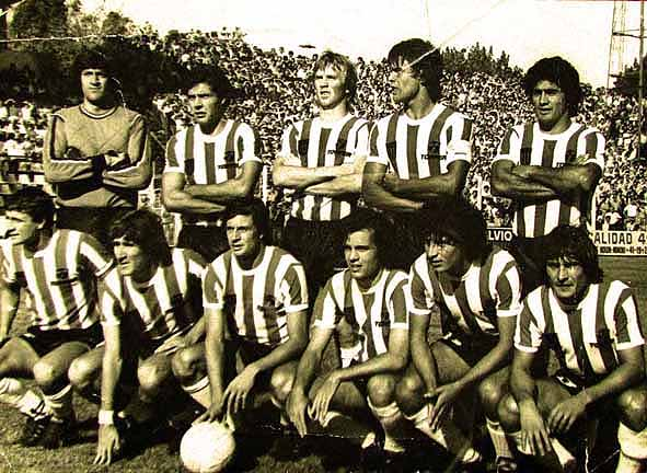 Team of Estudiantes de La Plata, that would win the Metropolitano championship that same year. Fltr, (standing): Carlos Bertero, Miguel Ángel Russo, Miguel Ángel Gette, José Luis Brown, Luis Malvárez; (down): Hugo Gottardi, Héctor Vargas, Guillermo Trama, Alejandro Sabella, Sergio Gurrieri, Abel Herrera.